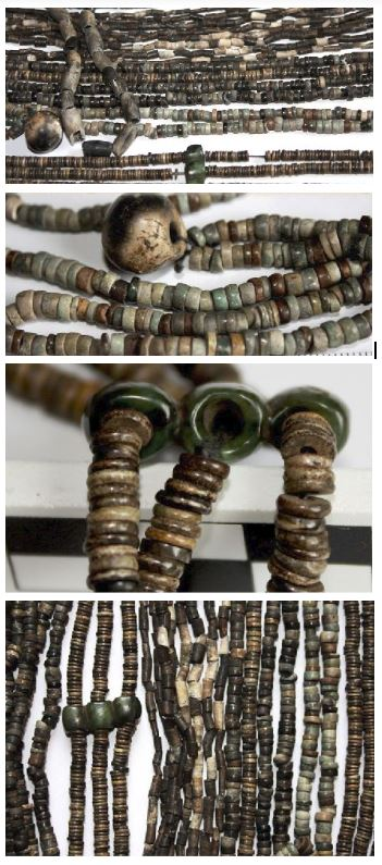 Zoom-in of Necklace Galabnik Neolithic